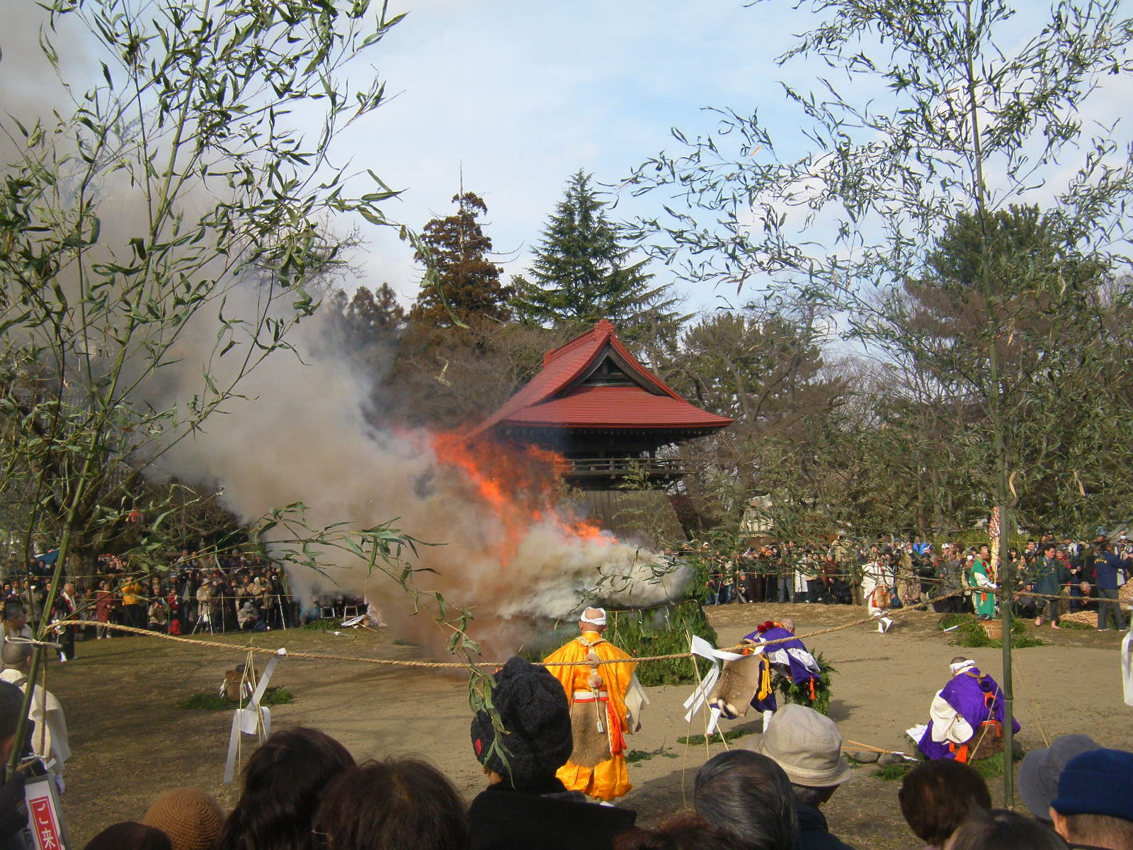 Shushōe of the Mutsu Provincial Temple. Kinoshita, Miyagino ward, Sendai, Miyagi prefecture, Japan.